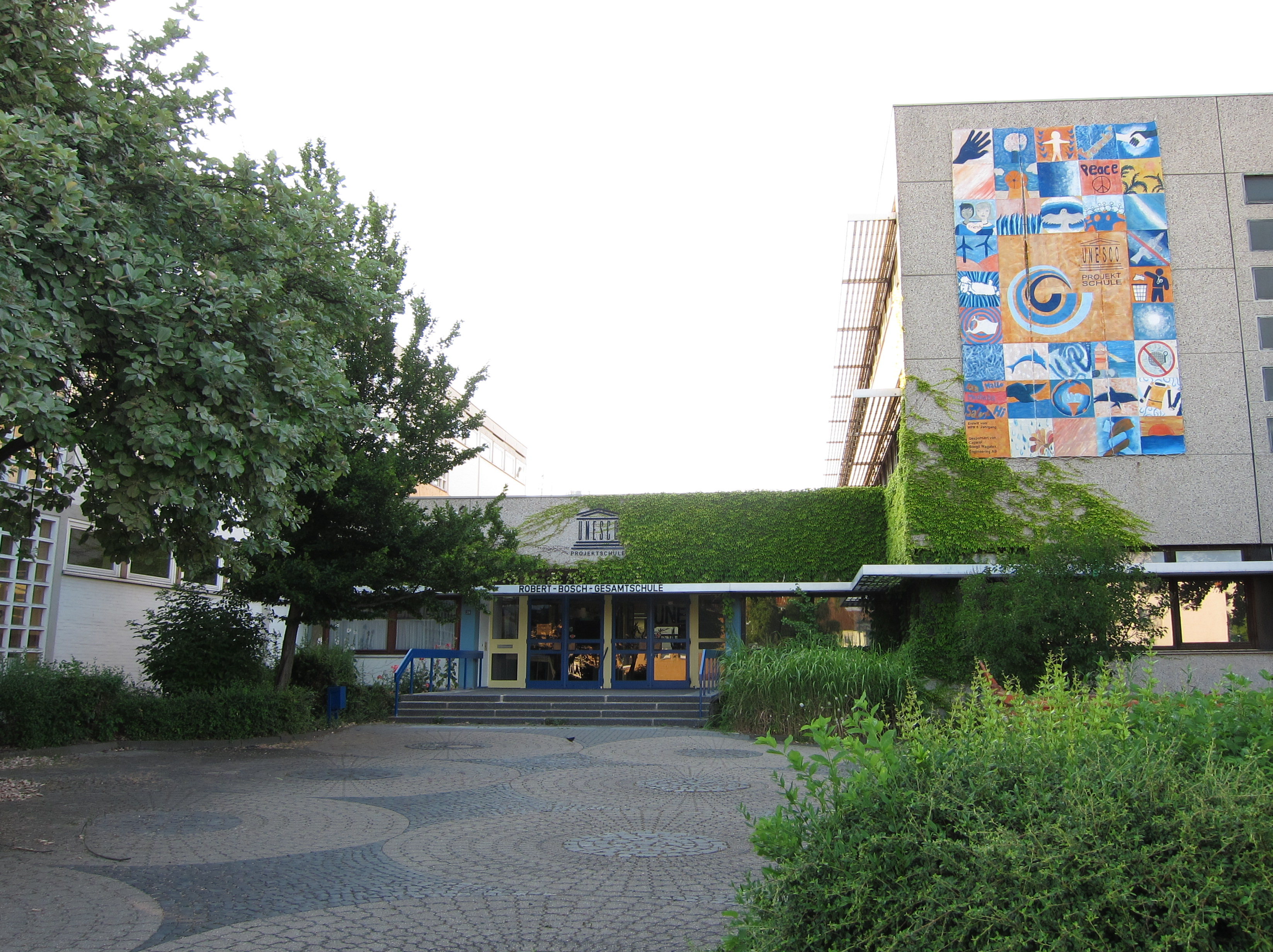 Robert-Bosch-School in Hildesheim (Germany)